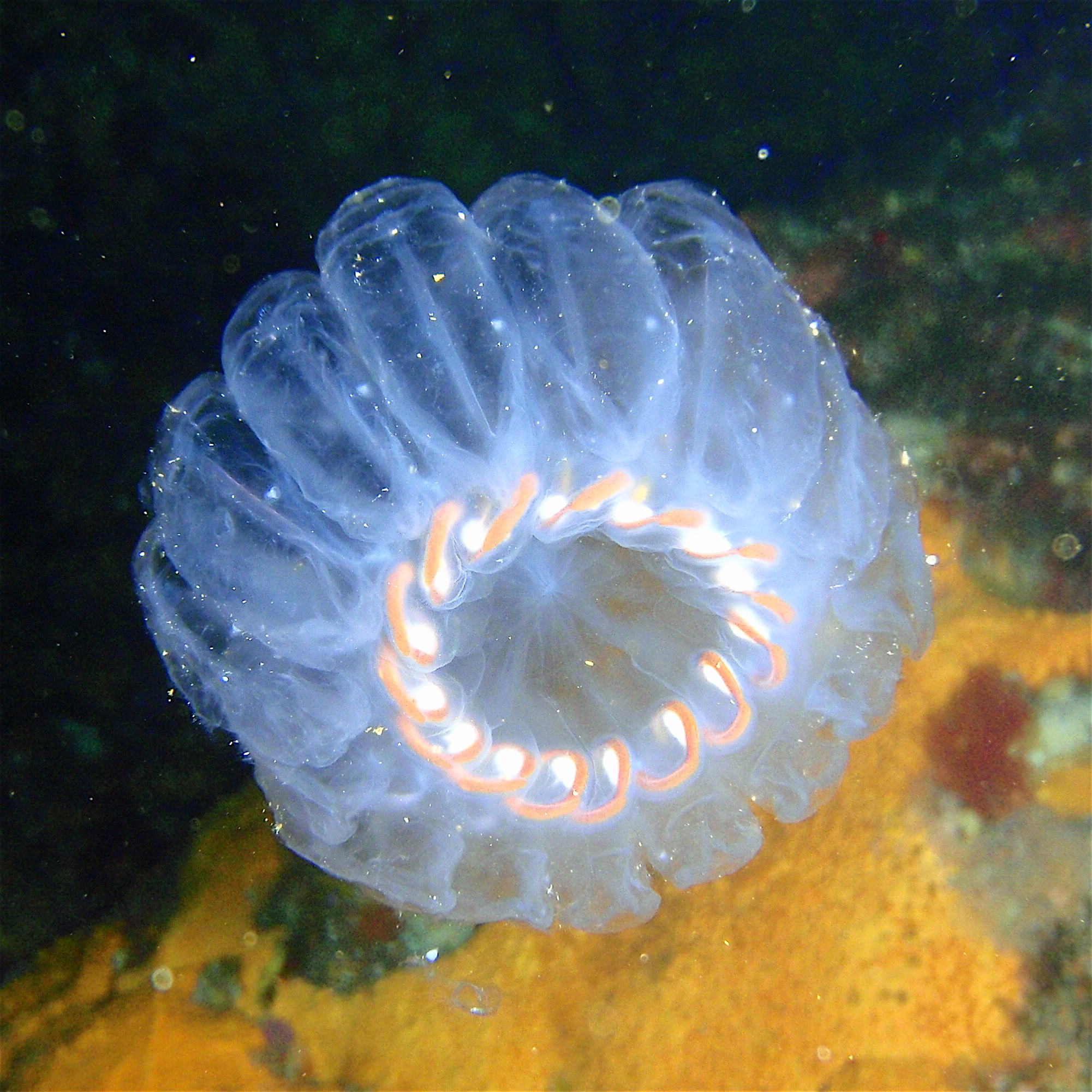 Circular ring cluster of pelagic salps at Aorangaia, Poor Knights Islands, New Zealand